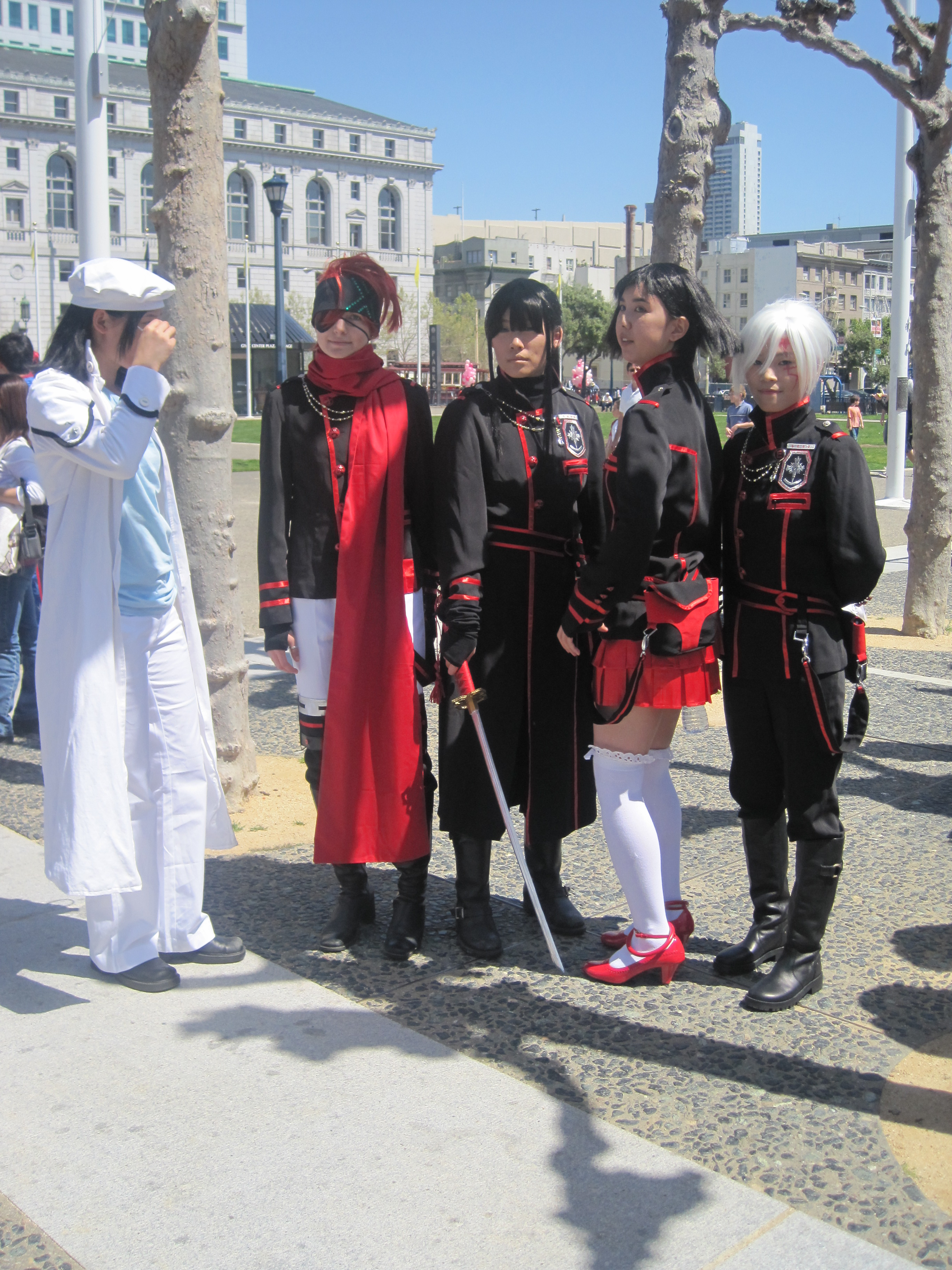 Cosplayers portraying Komui Lee, Lavi, Yu Kanda, Lenalee Lee, and Allen Walker from D.Gray-man at the Northern California Cherry Blossom Festival in San Francisco, California.